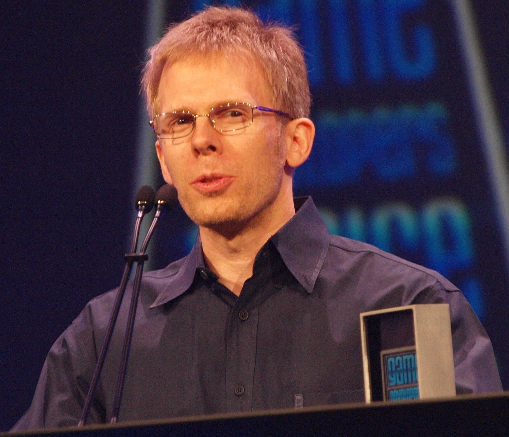 John Carmack receiving the Lifetime Achievement Award during the 10th annual Game Developers Choice Awards ceremony (as part of the Game Developers Conference 2010)